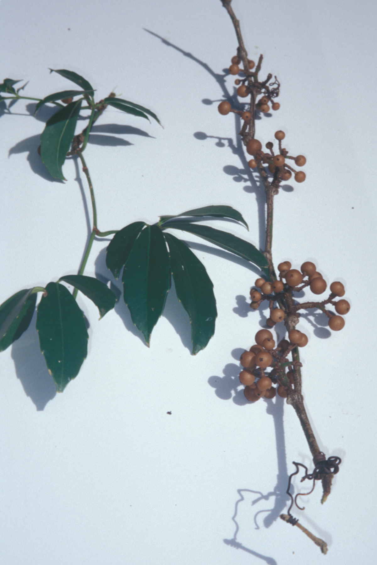 Tetrastigma pubinerve (fruit and leaves). Location: Maui, Honokahau Valley